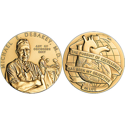 Front and Back of Congressional Gold Medal awarded to Michael E. DeBakey, M.D.